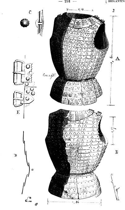 a structure of a Classic Biriganidne from small plates by Eugène Emmanuel Viollet-le-Duc